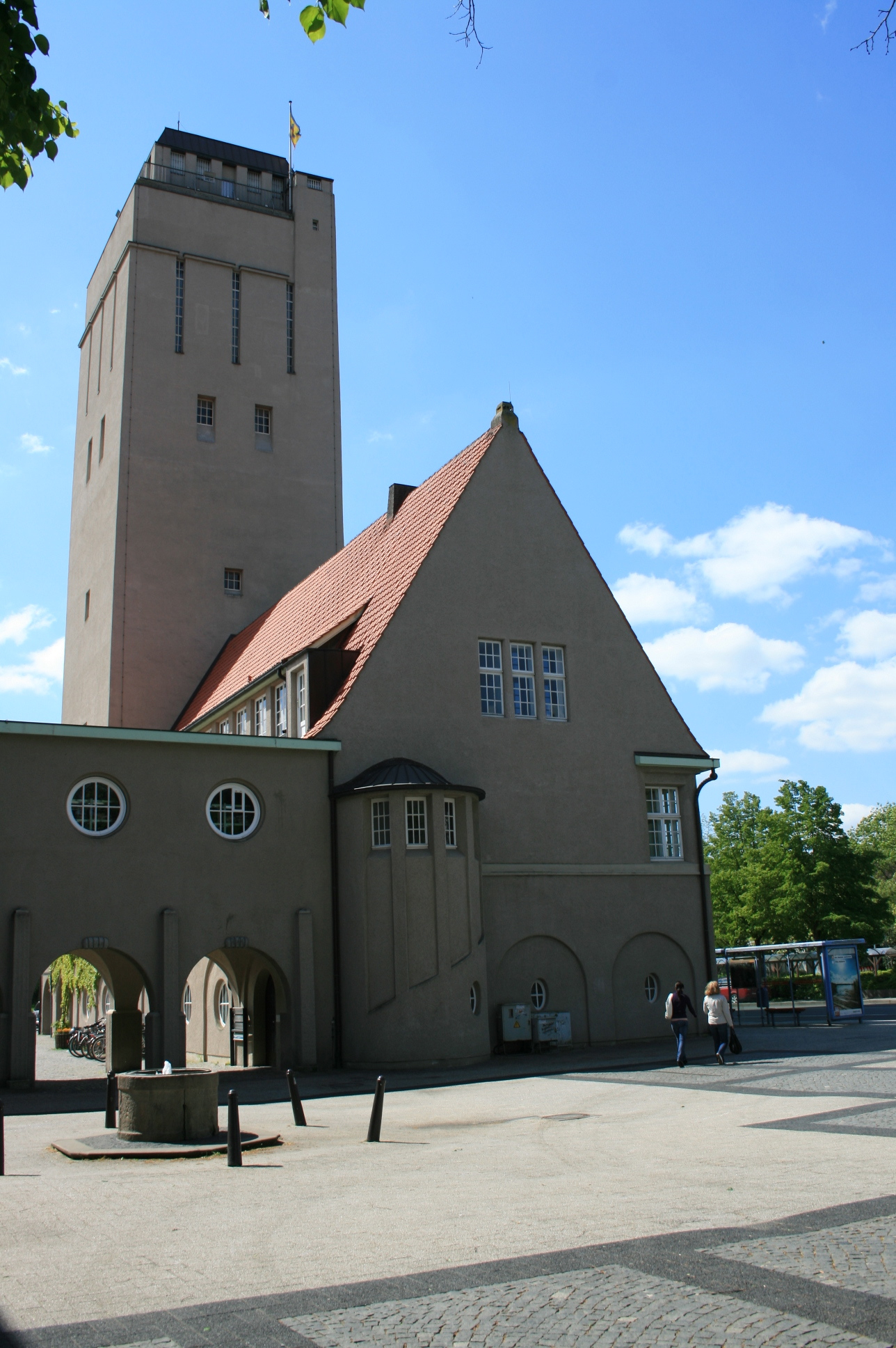 Water tower of and former fire departement building, Delmenhorst, Lower Saxony, Germany